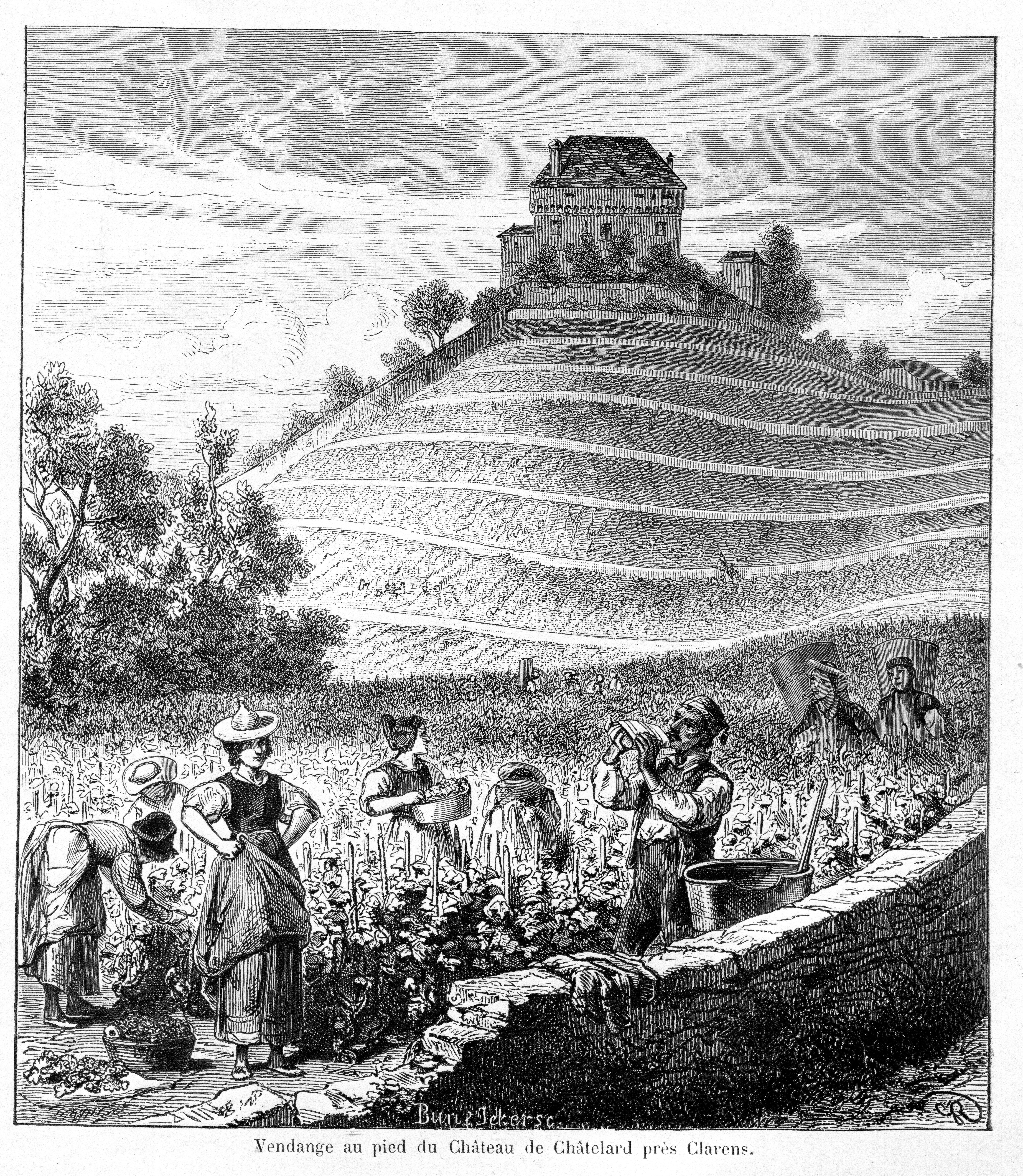 Gustave Roux 24 vendange au pied du Château de Châtelard près Clarens